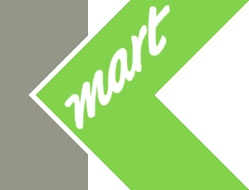 Prototype lime green logo for Kmart used temporarily for five stores.